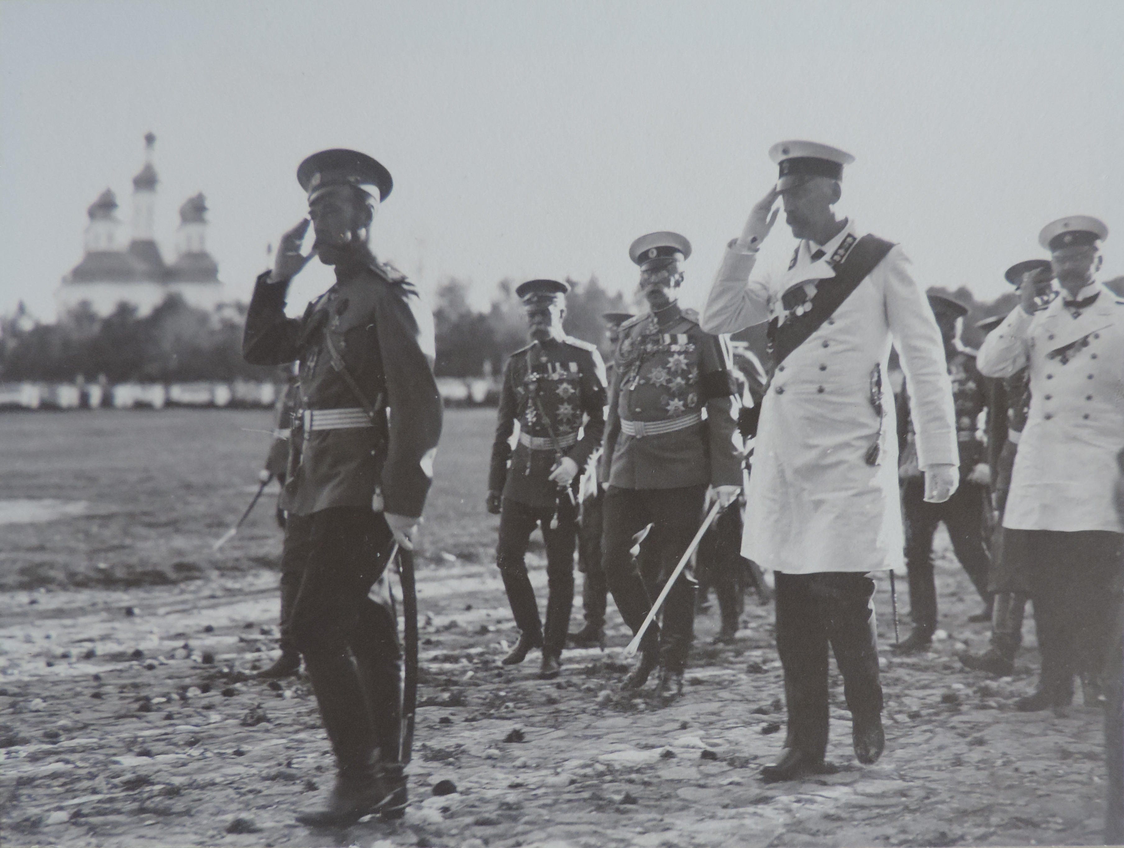 Historic military photos. Chernihiv.